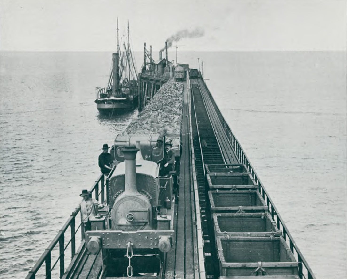 South Bulli Jetty at Bellambi harbour 1909. The steam collier "Bellambi" can be seen along side loading coal. The jetty had been completely re-built in the three years preceeding this photo.